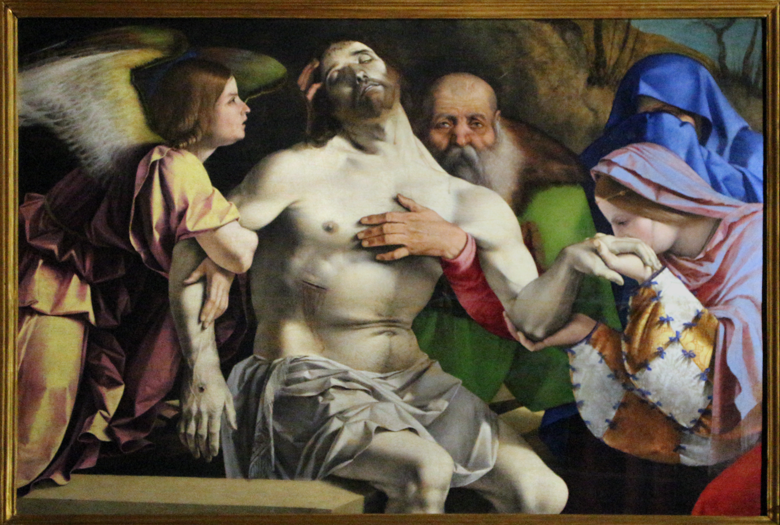 Recanati Altarpiece by Lotto